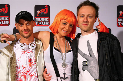 Discobitch